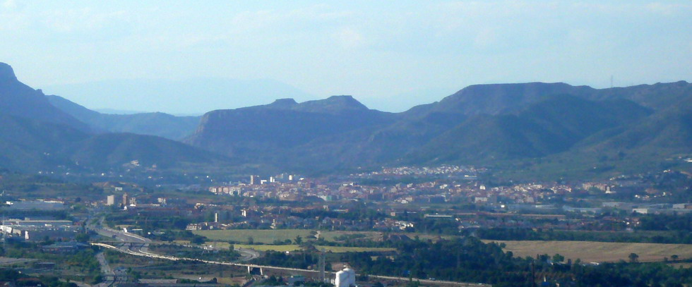 Olesa de Montserrat with Sant Salvador de les Espases hills, as seen from Serra de l'Ataix, Martorell (Baix Llobregat, Catalonia